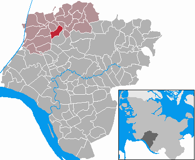 This map shows the area of the municipality Agethorst in the Kreis (district) Steinburg, Schleswig-Holstein, Germany.